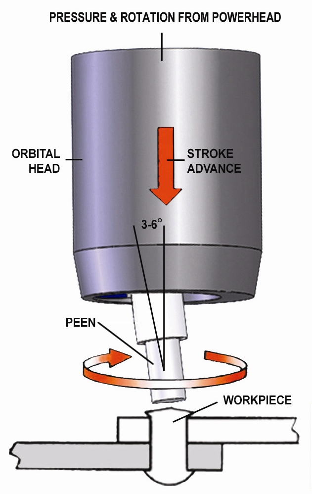 Explanation graphic of orbital riveting by Orbitform